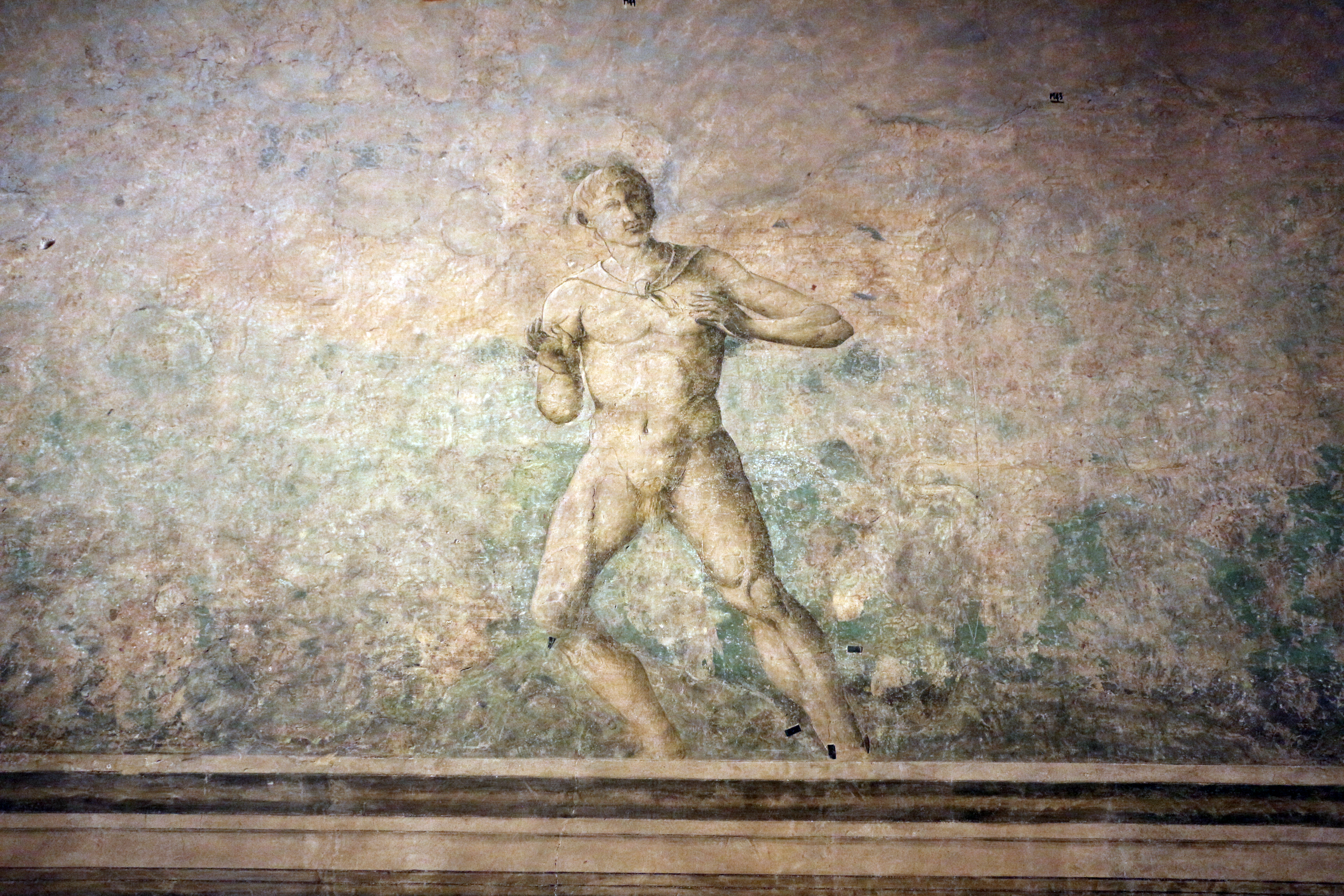 Palazzo dei Pio